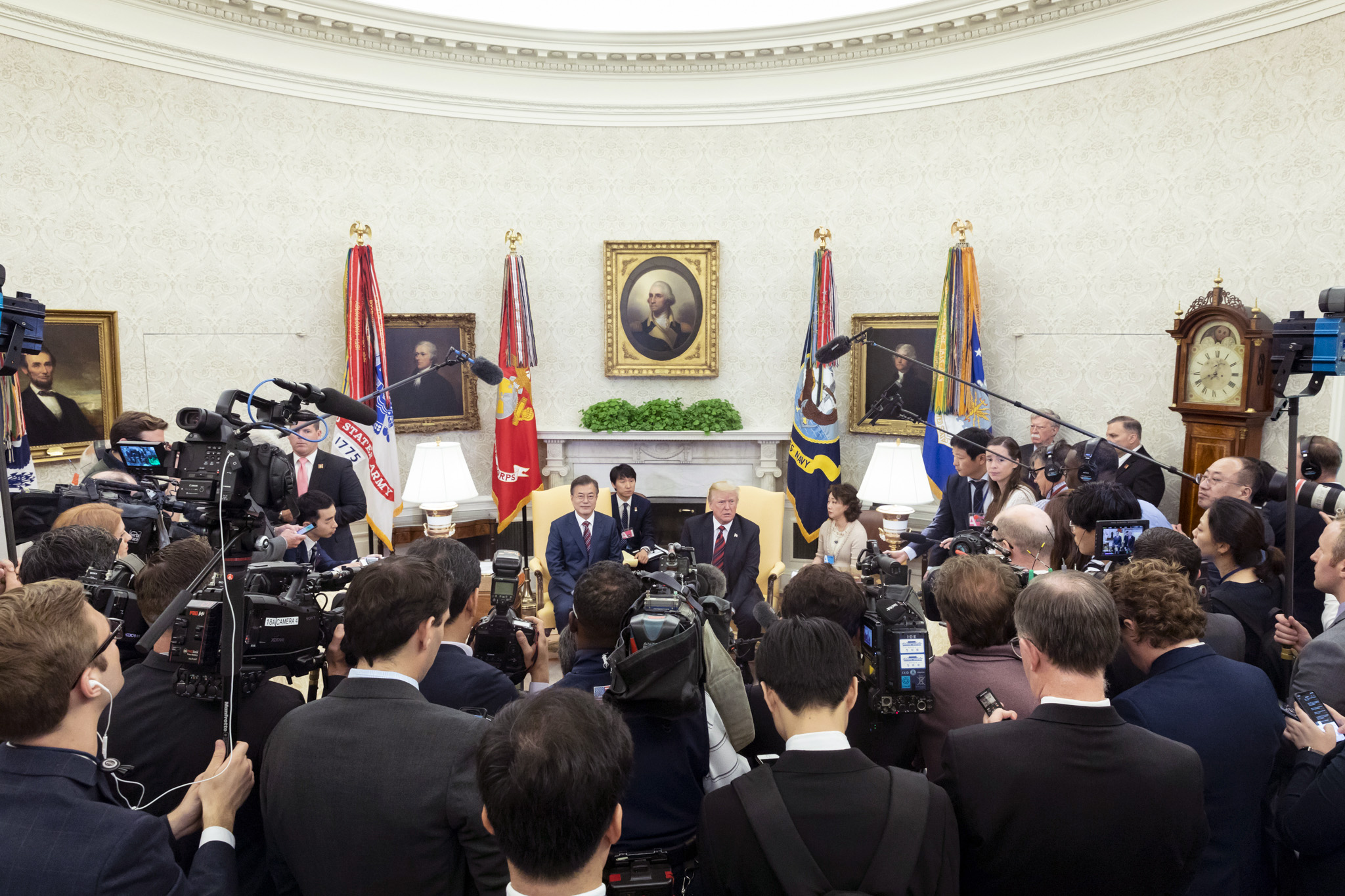 President Donald J. Trump of the United States meets with President Moon Jae-in of South Korea on May 22, 2018.